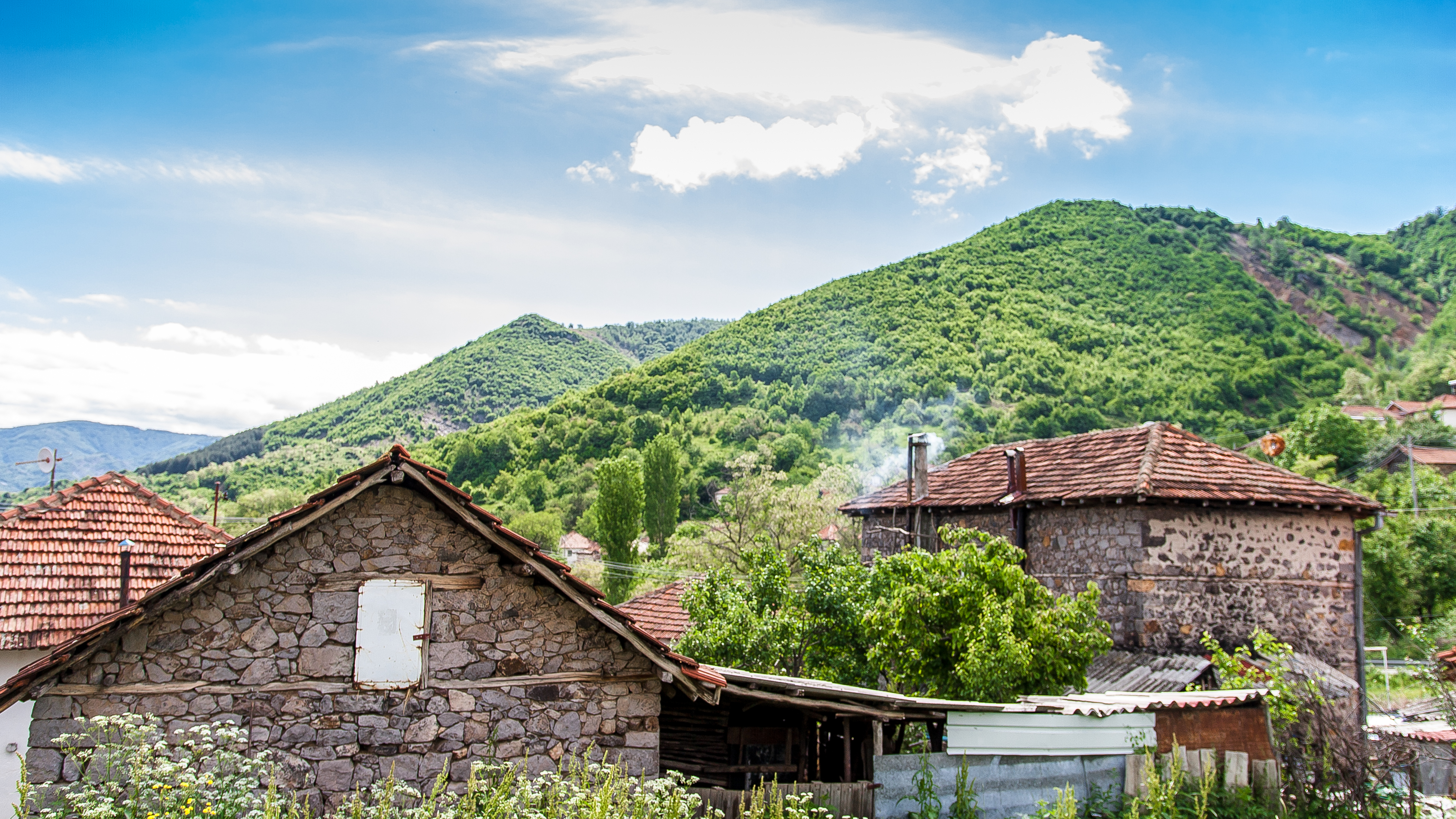 View of the part of the village Prikovci